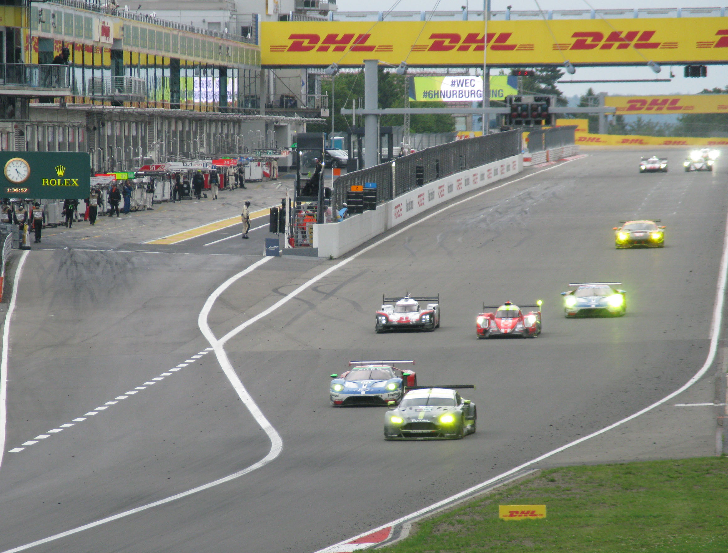 2017 6 Hours of Nürburgring